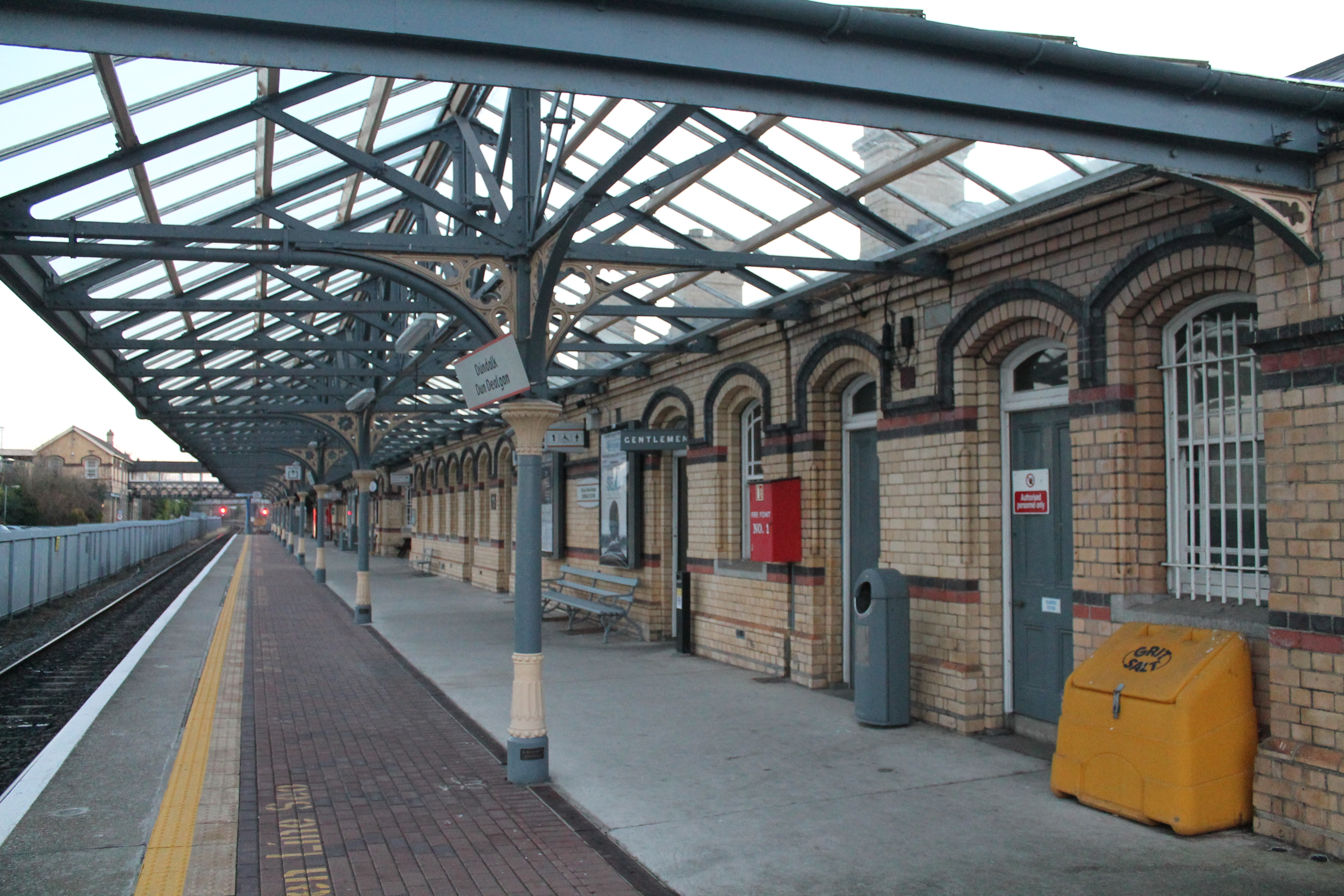 Dundalk railway station. Feb 2015.